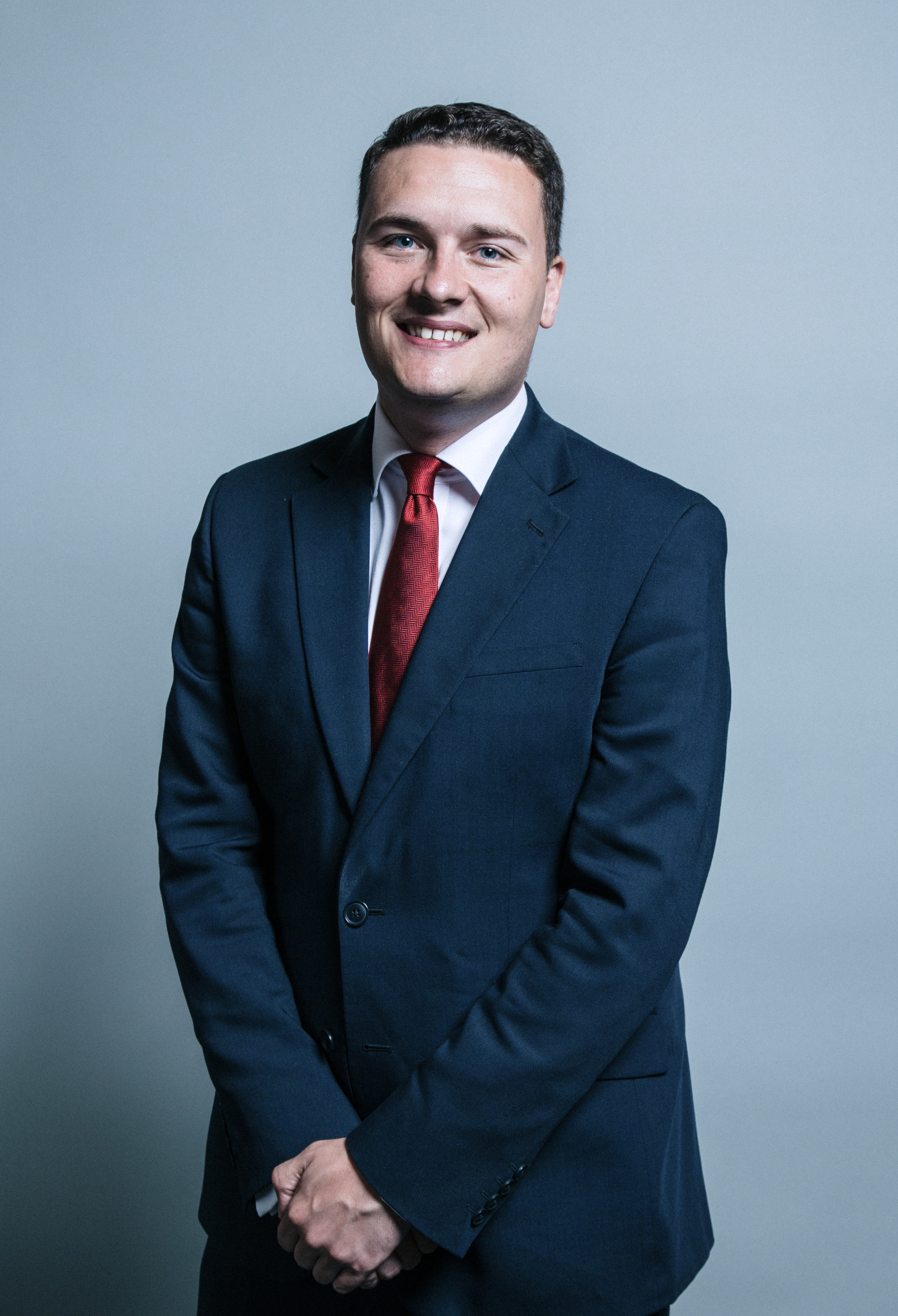 Official portrait of Wes Streeting